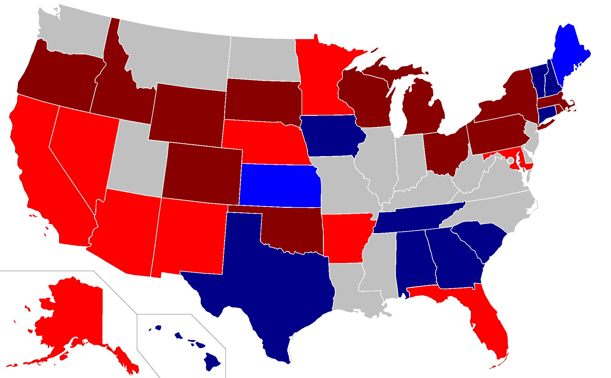 A map showing the results of the 1966 United States Gubernatorial elections